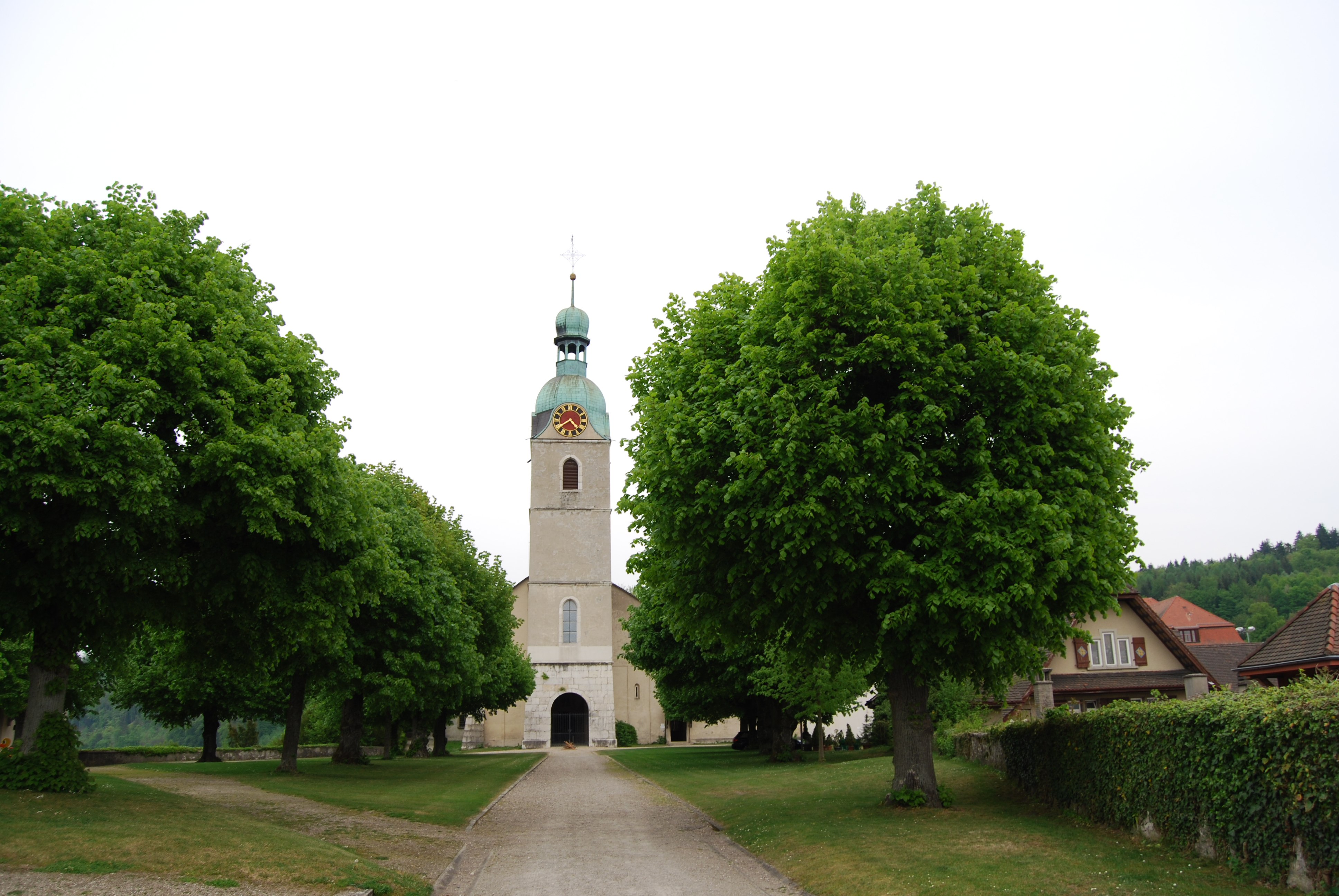 Abbey Church of Schönenwerd, canton of Solothurn, Switzerland